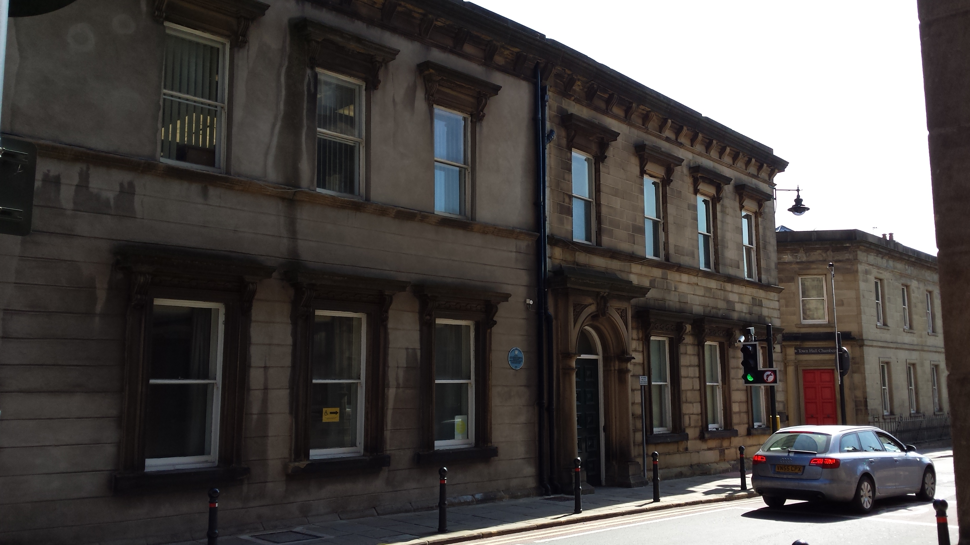 This is a photograph of the former Wakefield City Police Station in Cliff Parade, Wakefield. This building is now used as the Wakefield & Pontefract Magistrates' Court.